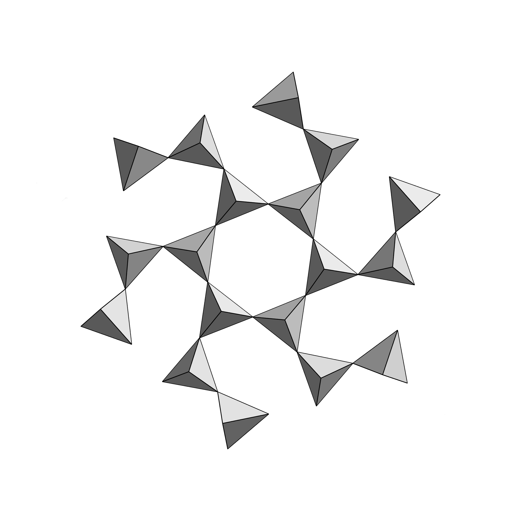 Branched 6er single ring of Tienshanite Data from: Cooper M. A., Hawthorne F. C. (1998): Refinement of the crystal structure of tienshanite: short-range-order constraints on chemical composition, The Canadian Mineralogist 36, pp. 1305-1310 Calculation of image data: Larry W. Finger, Martin Kroeker, and Brian H. Toby, DRAWxtl, an open-source computer program to produce crystal-structure drawings, J. Applied Crystallography V40, pp. 188-192, 2007 Rendering: POVRAY